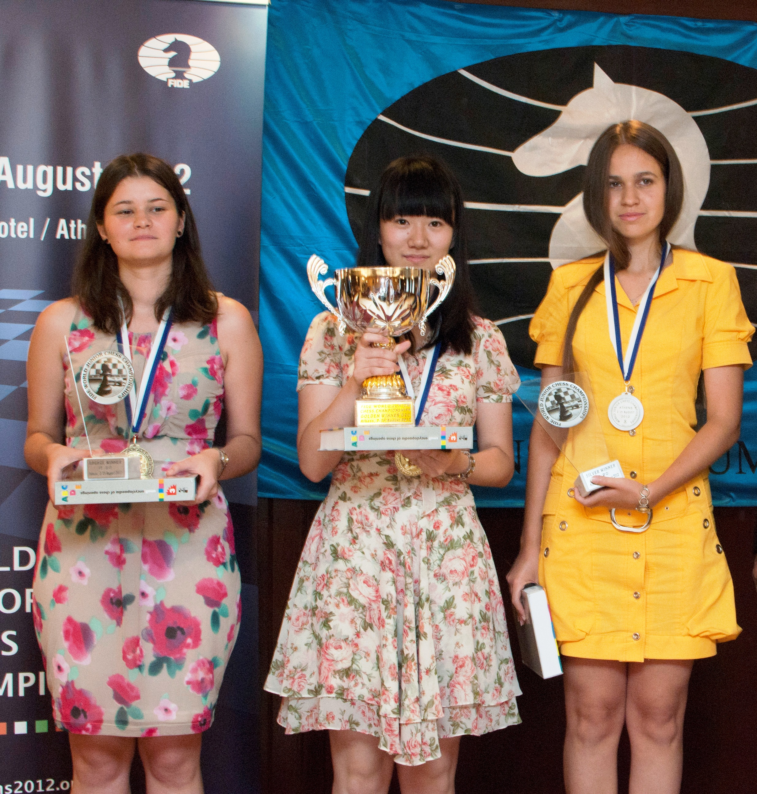 WChJ Athens 2012 - The Womens' podium: (from left) Anastasia Bodnaruk (bronze), Guo Qi (gold), Nastassia Ziaziulkina (silver).